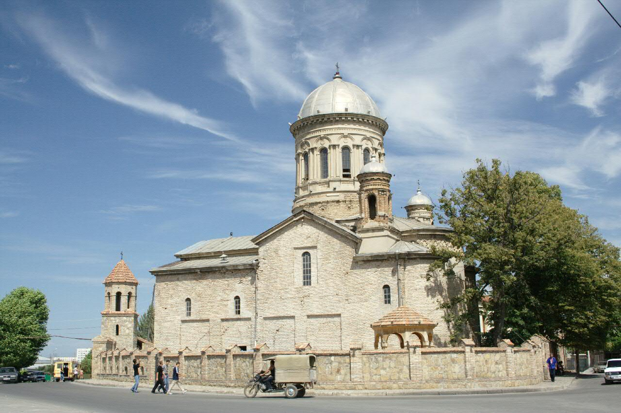 Georgian Orthodox Cathedral in Gori Aragonés: Seu ortodoxa de Gori.